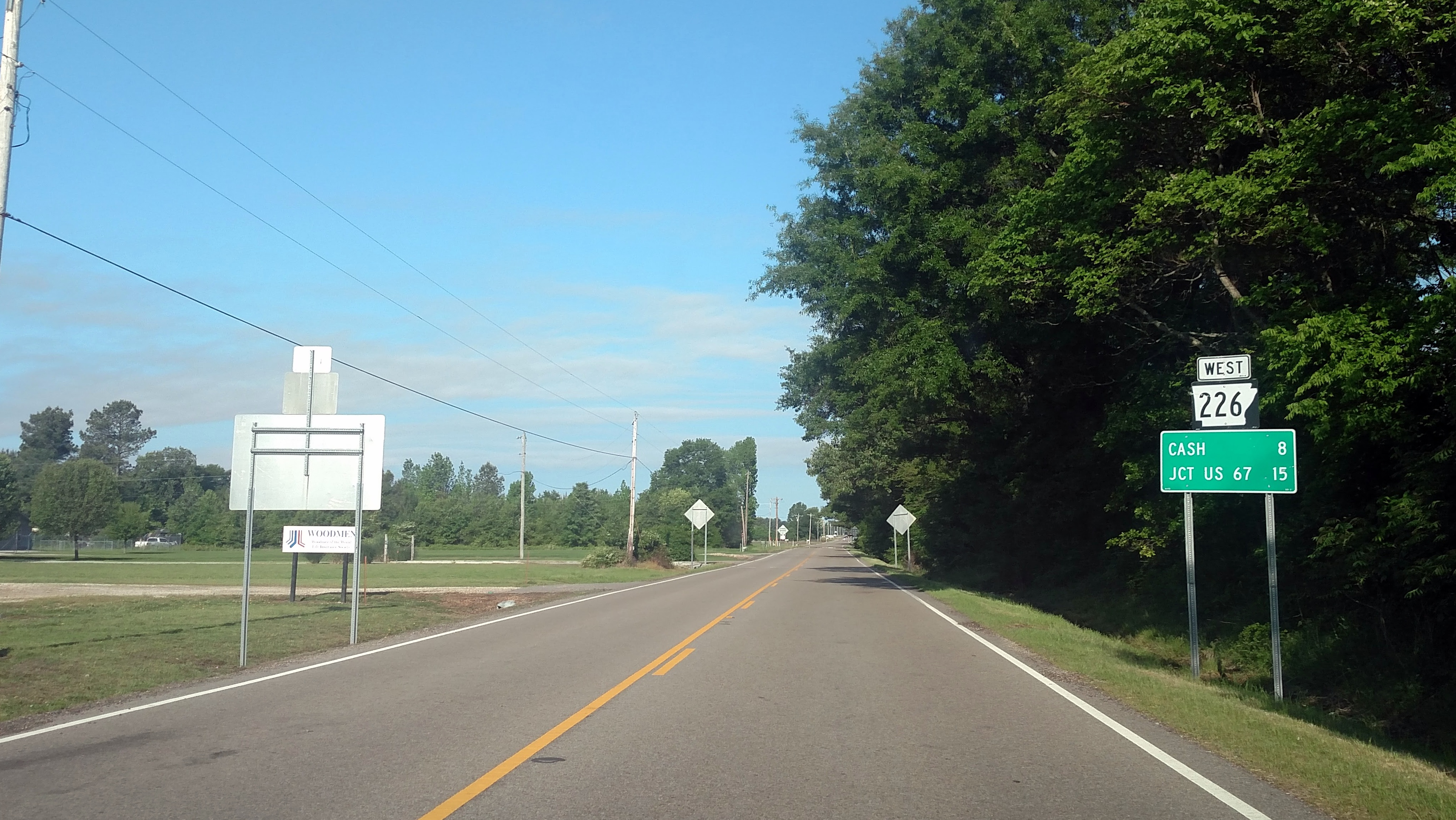 Highway 226 just west of the Highway 226S junction near Jonesboro, AR